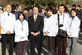 Shōichi Kondō, Senior Vice-Minister of the Environment, attended the Ceremony of the COP10 Origami Project with officials of the Ministry of the Environment at Higashiyama Zoo and Botanical Gardens in Nagoya City, Aichi Prefecture on December 12, 2010.